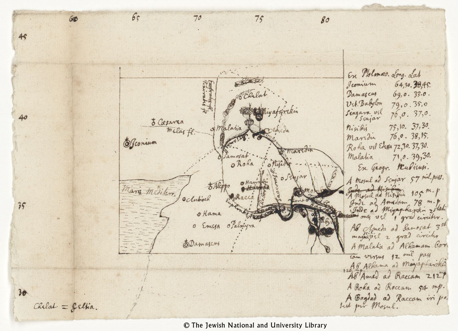 A Map of the Middle East by Isaac Newton.